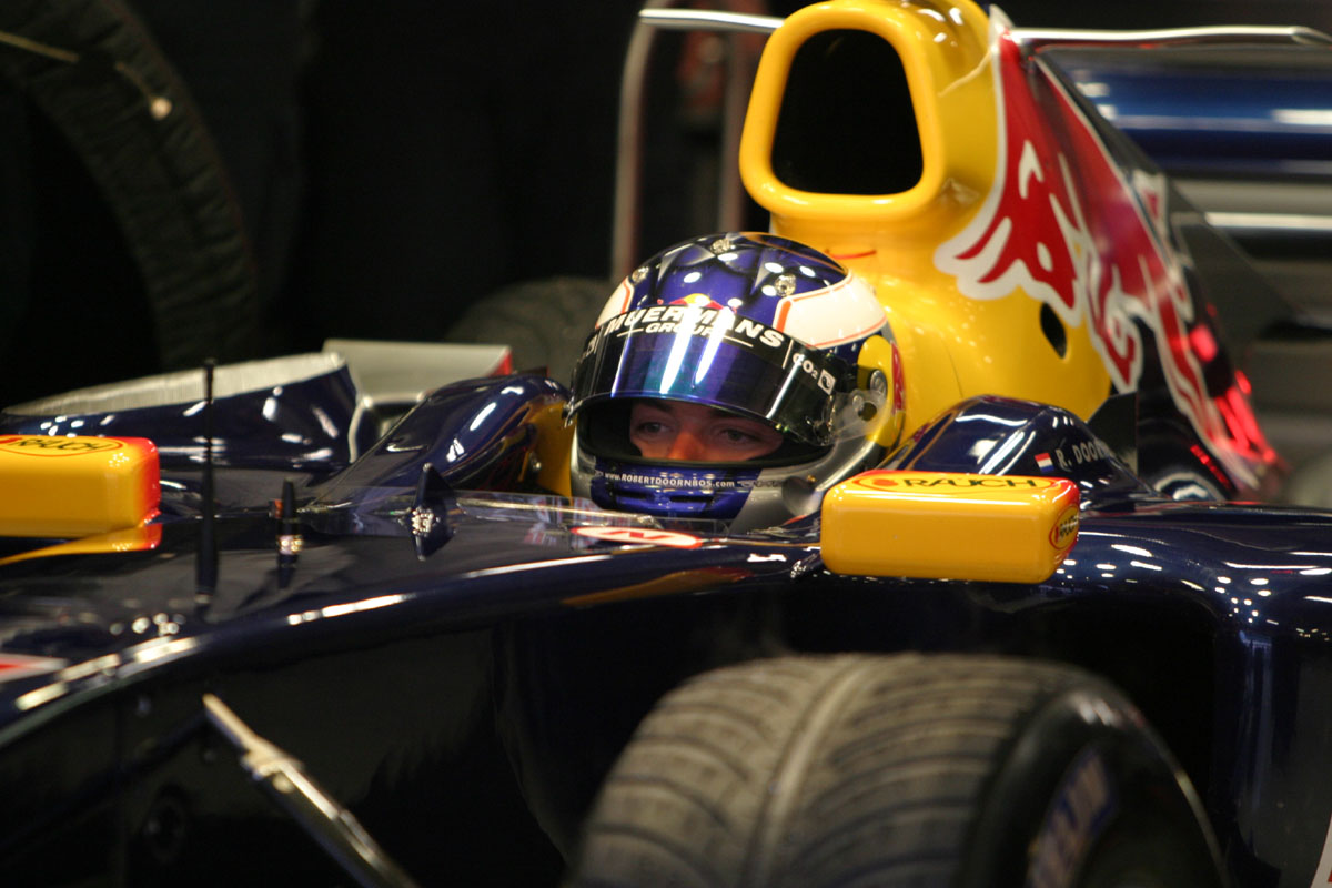 Doornbos in the Red Bull Racing car in 2006